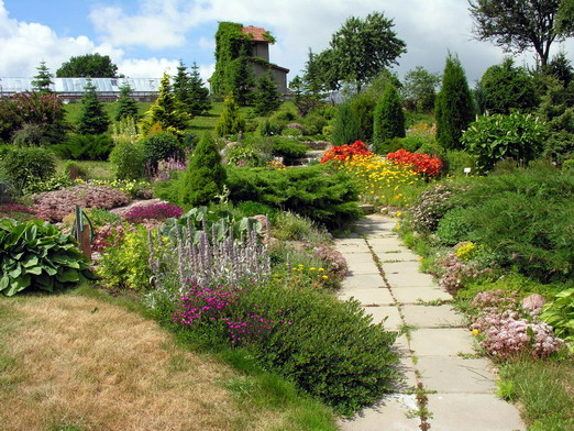 Klaipėdos universiteto botanikos sodas, Botanical Garden of Klaipeda University